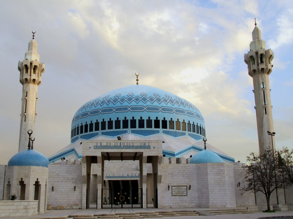 The main prayer hall of the King Abdullah I Mosque (1989) in Amman, Jordan, can accommodate 3,000 worshipers with space for another 6,000 in the courtyard. Non-Muslims may enter upon payment of a small fee.